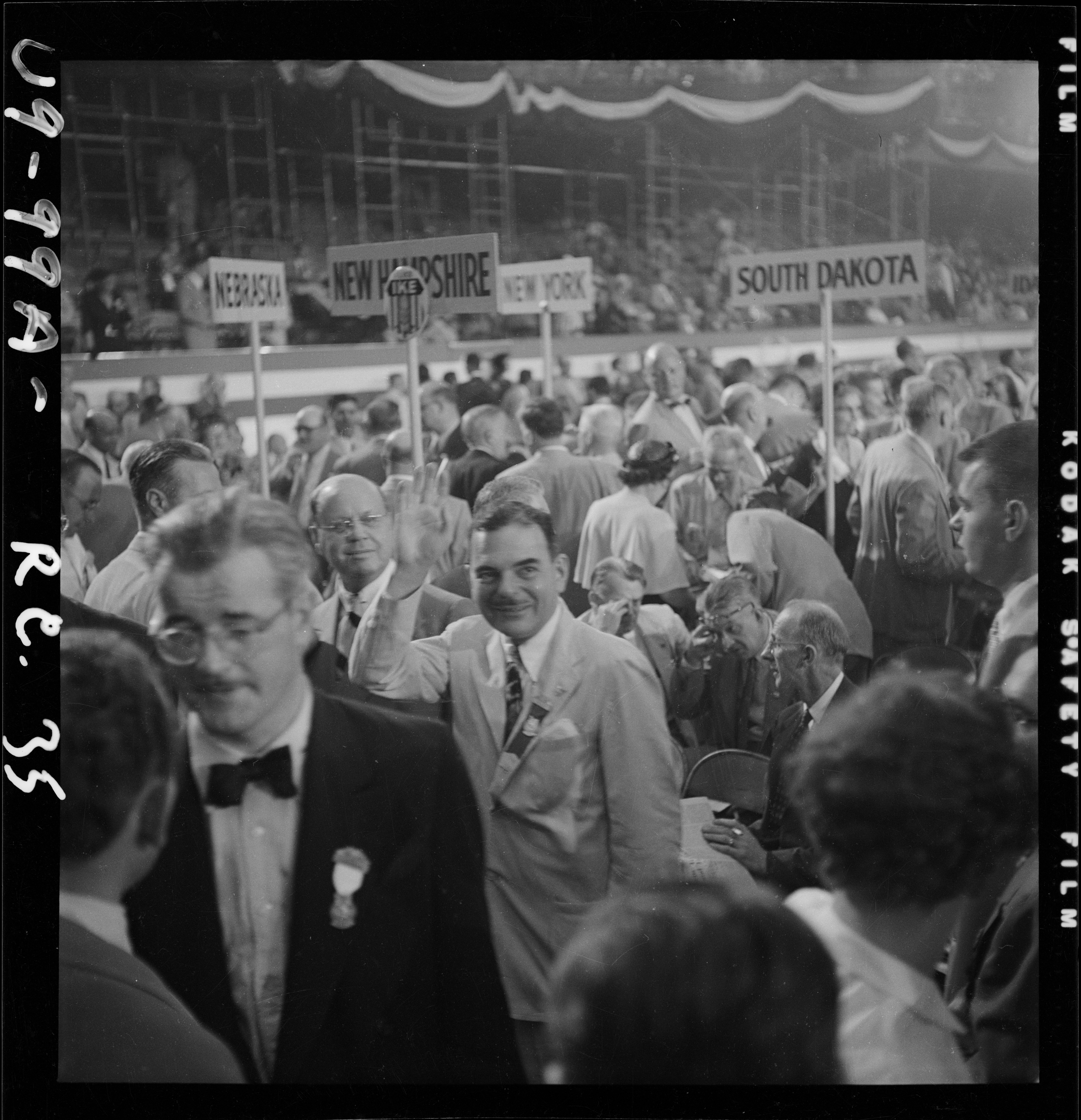 Republican National Convention, July 1952, Chicago [Thomas E. Dewey, Governor of New York, waving from floor of convention hall]